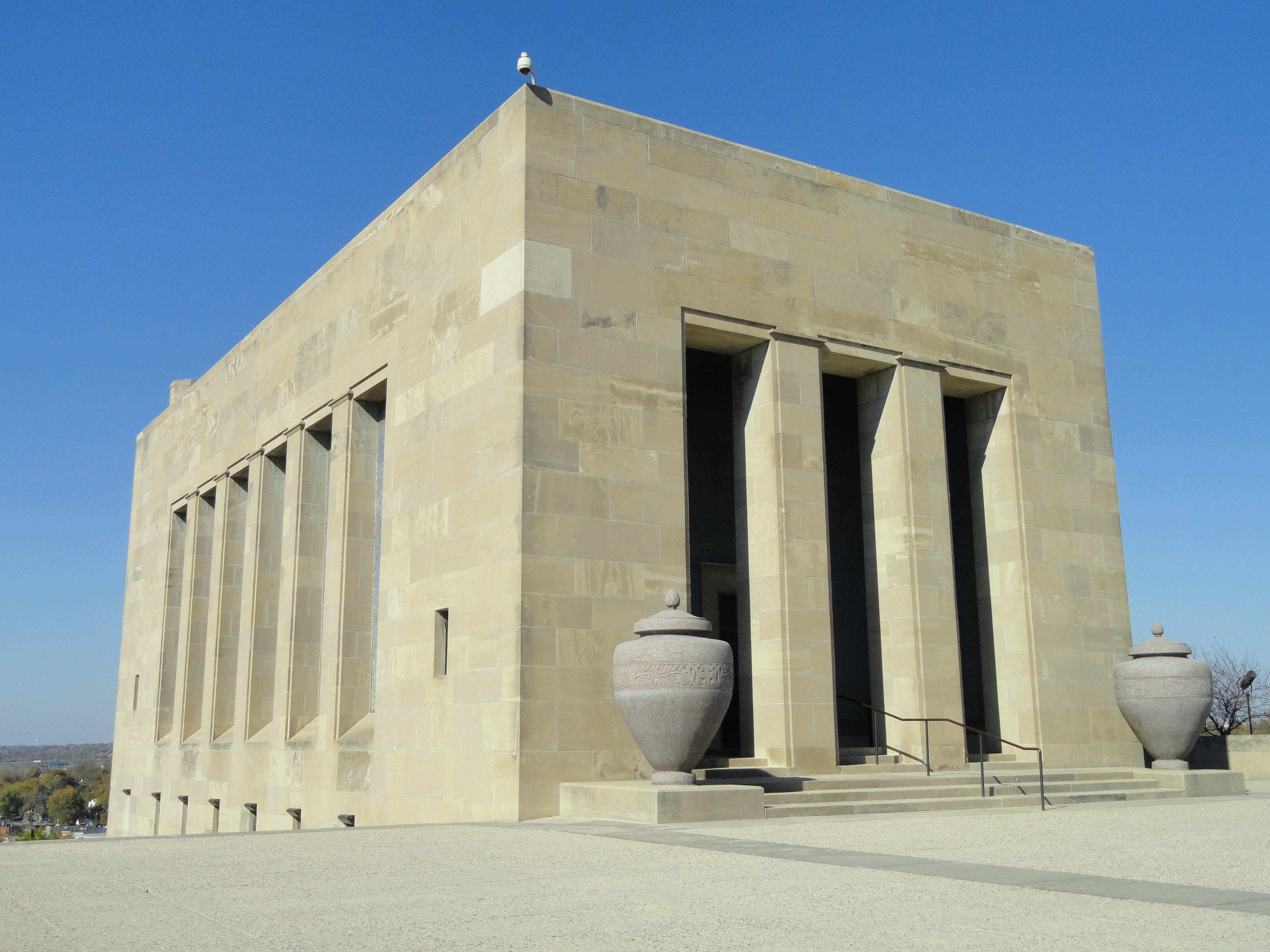 Liberty Memorial, 100 W. 26th Street, Kansas City, Missouri, USA.